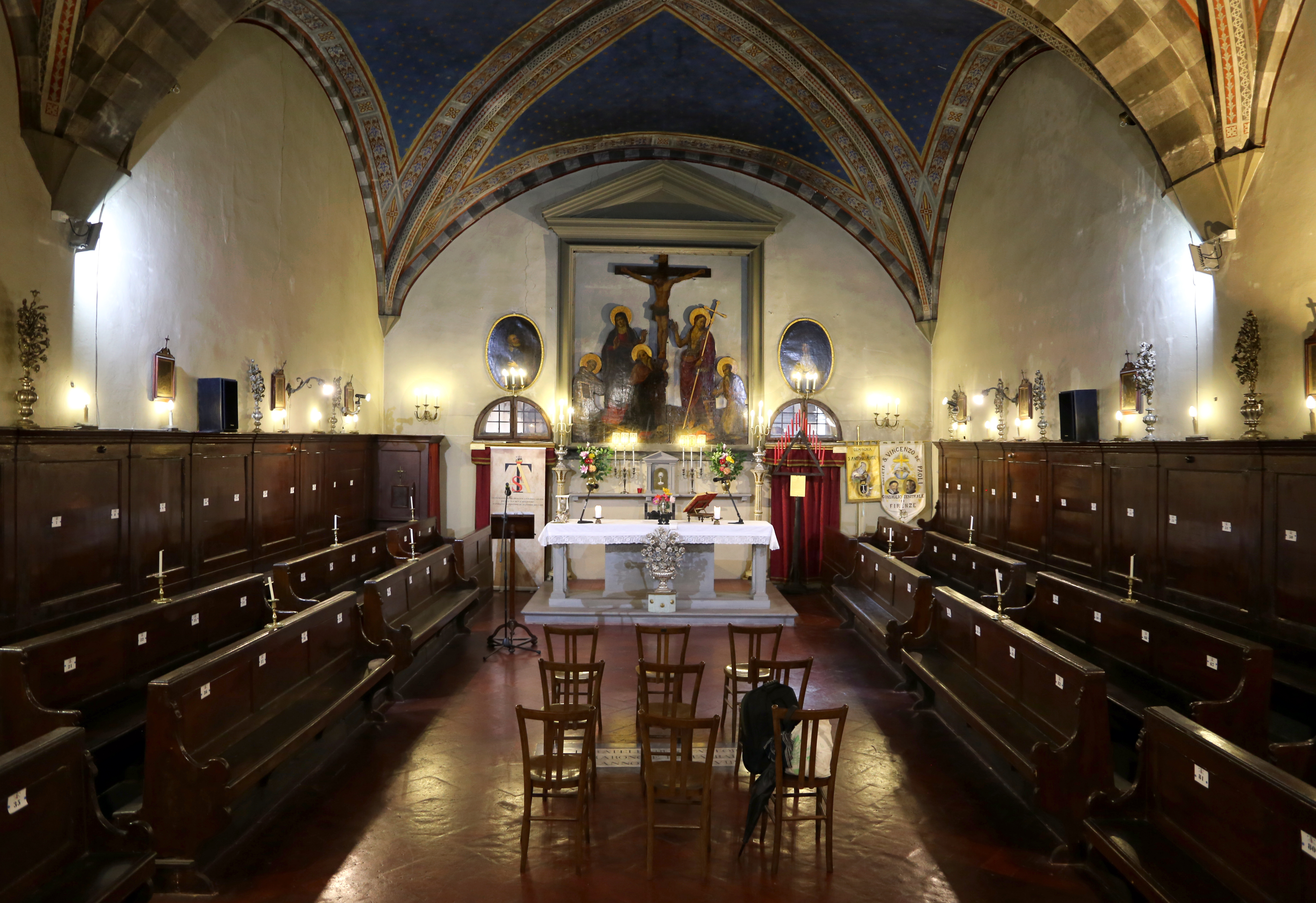 Sant'Antonio Abate (Florence)